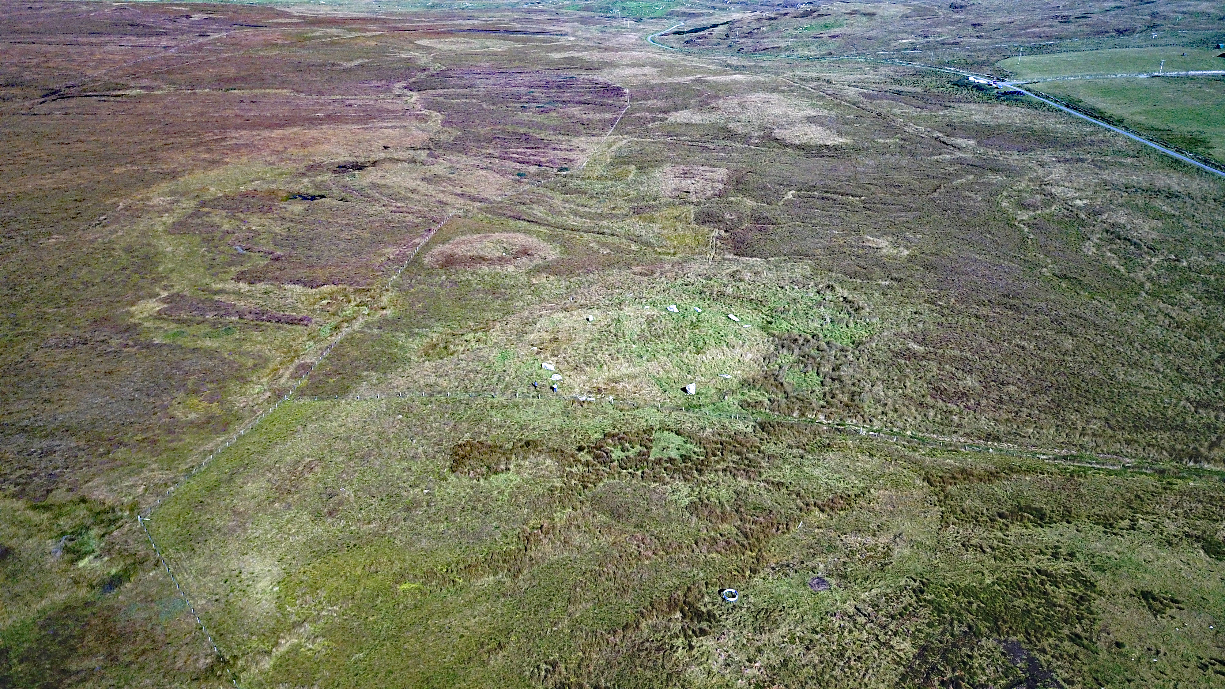 Cultoon Stone Circle